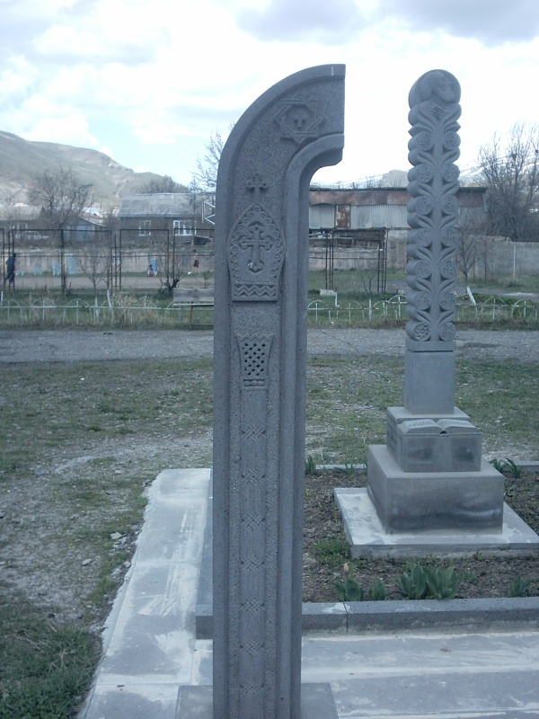 Այբբենարան-համալիրի` Սահակ Պարթև կաթողիկոսին խորհրդանշող կամարը Հեղինակ` Իվան Սիմոնյան